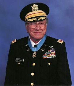 Maj. (ret.) Ed W. Freeman